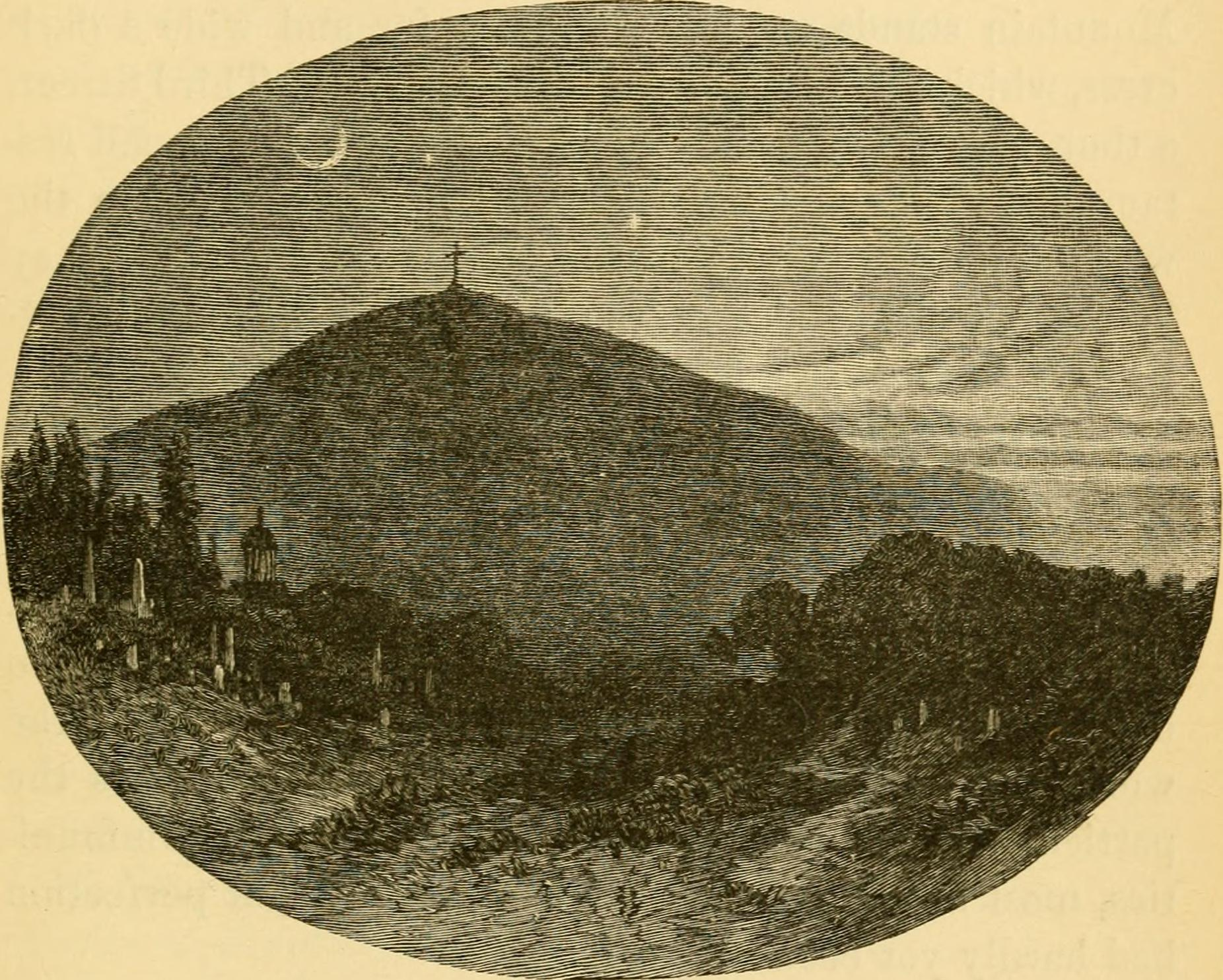 Lone Mountain (California) Title: Old Mexico and her lost provinces; a journey in Mexico, southern California, and Arizona, by way of Cuba Year: 1883 (1880s) Authors: Bishop, William Henry, 1847-1928 Subjects: Mexico -- Description and travel California -- Description and travel Arizona -- Description and travel Publisher: New York, Harper & brothers